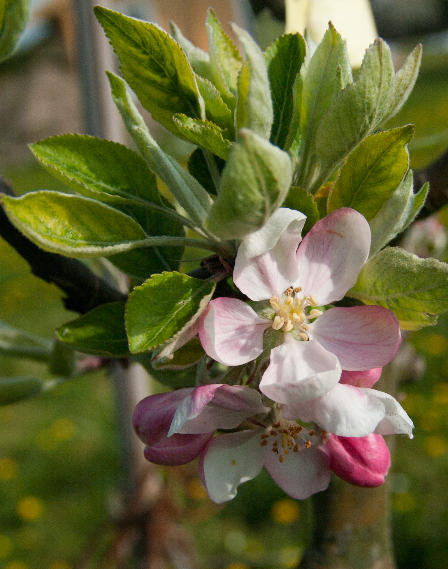 Alkmene apple flowers